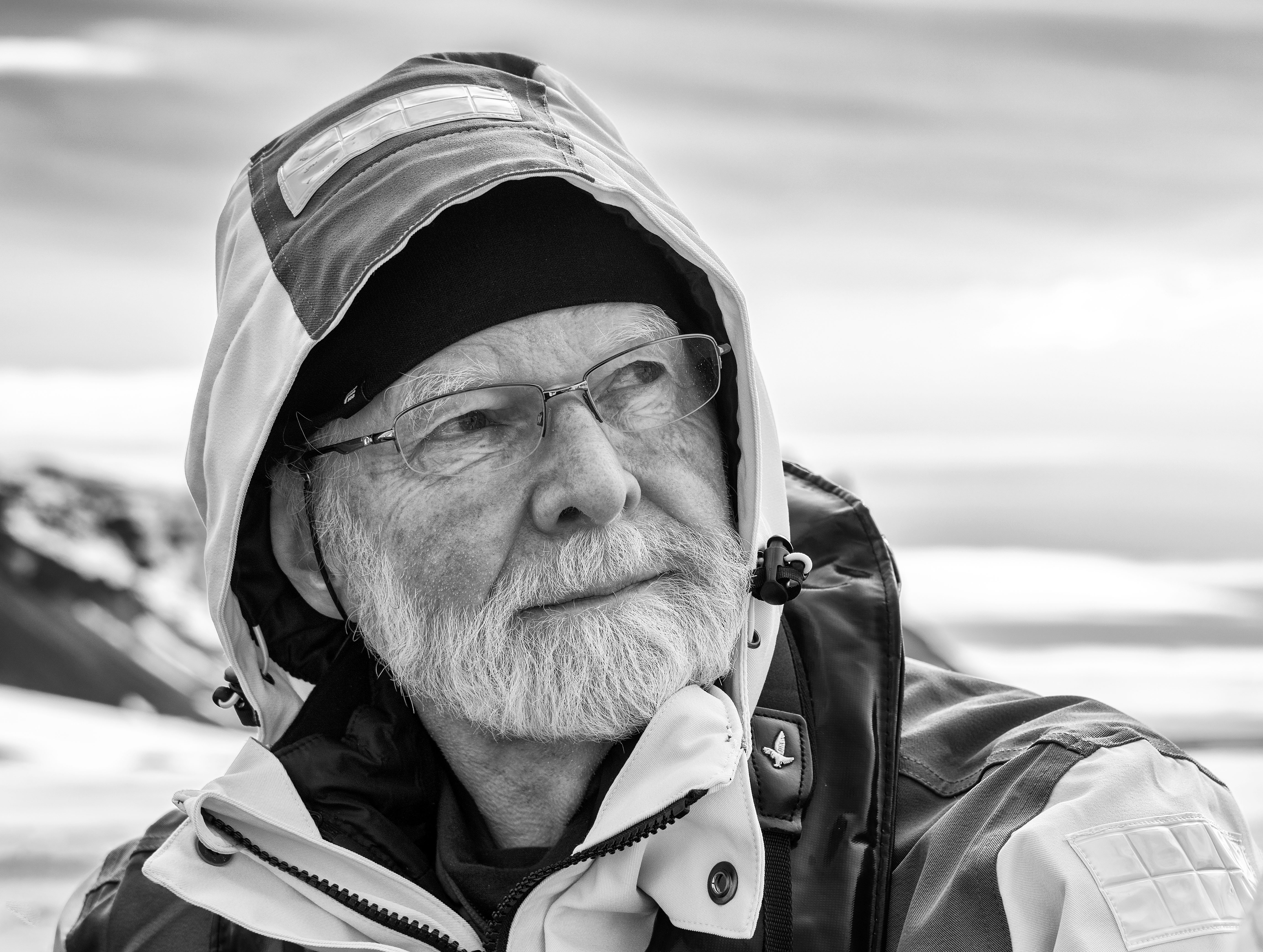 Professor James McCarthy enroute to the North Pole by Christopher Michel.